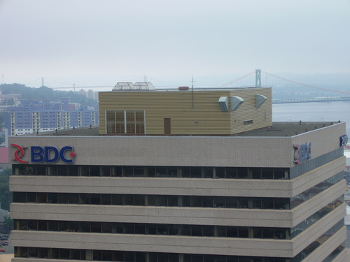 Author: threehappypenguins; Source: personal. This is my own personal photo that I took with my own camera.